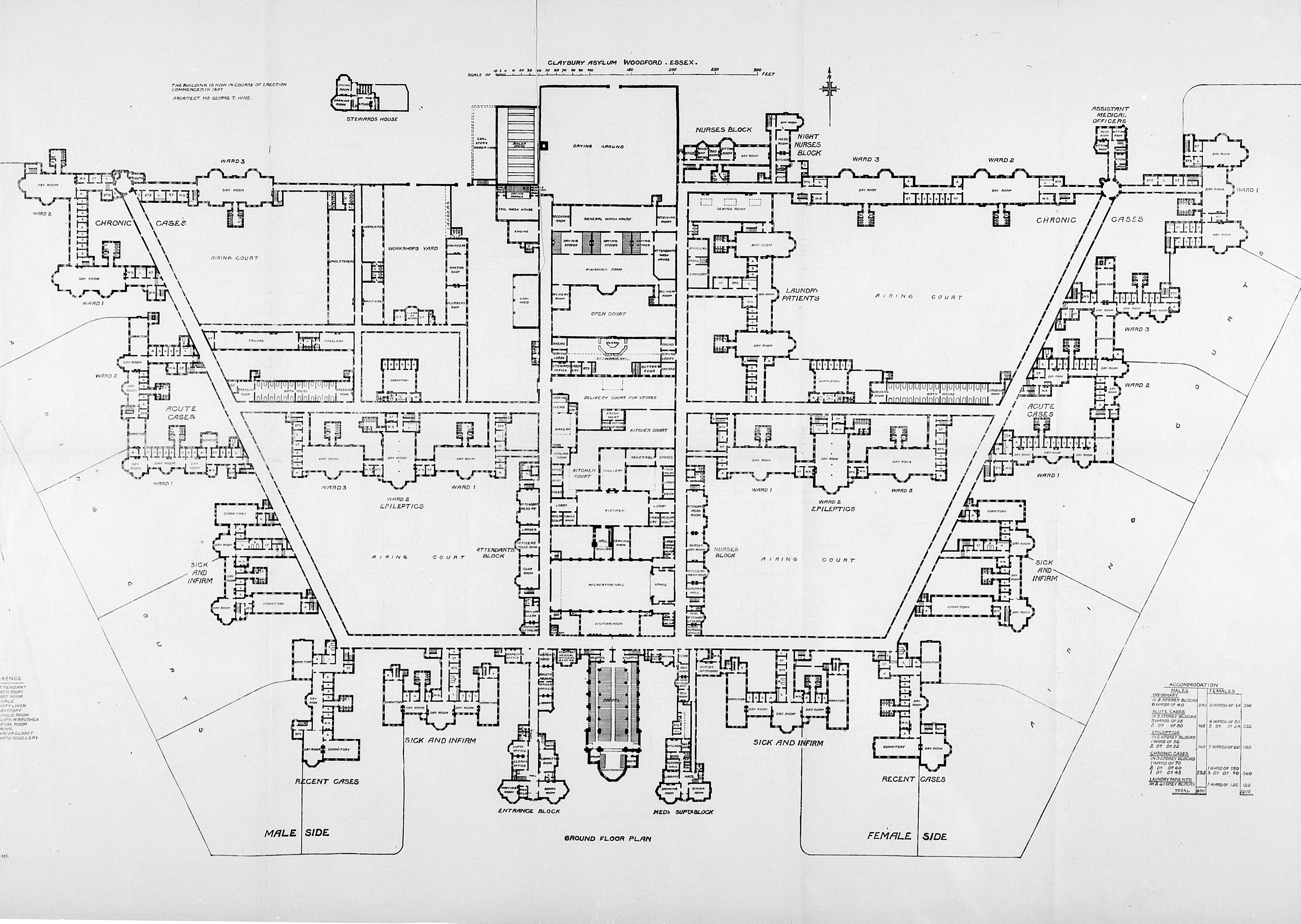 Claybury Asylum, Woodford, Essex, ground floor plan. General Collections Keywords: INSTITUTIONS; Psychiatry